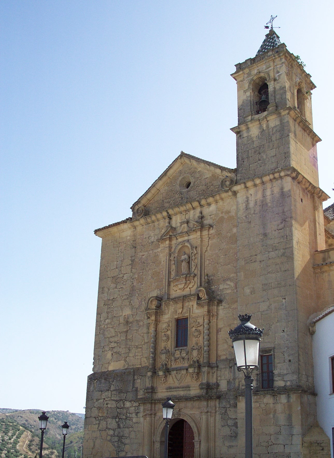 Montefrío, Andalucia, Spain.